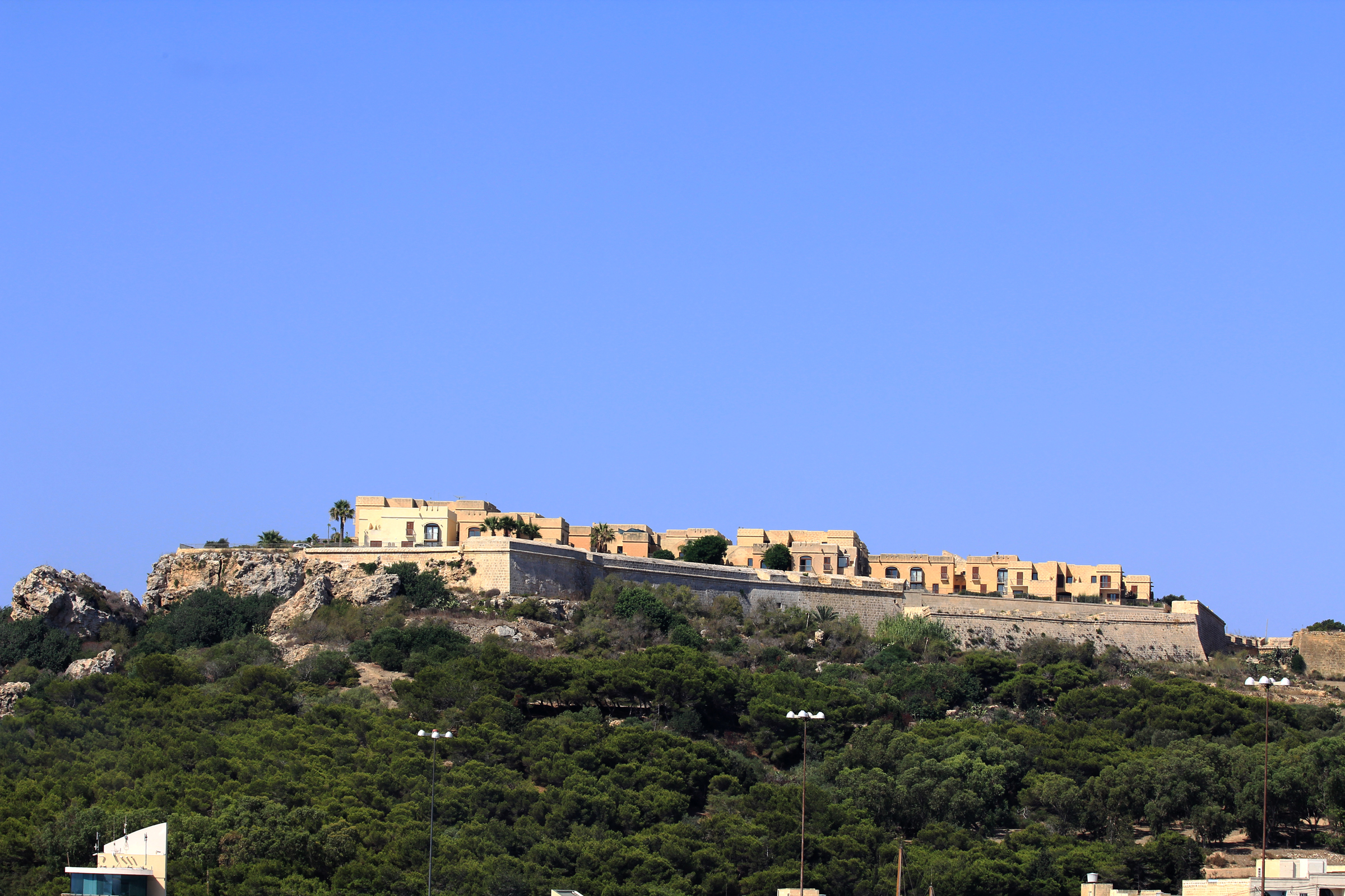 Fort Chambray in town Għajnsielem over the Mġarr Harbour, seen from ferry, Gozo island, Malta